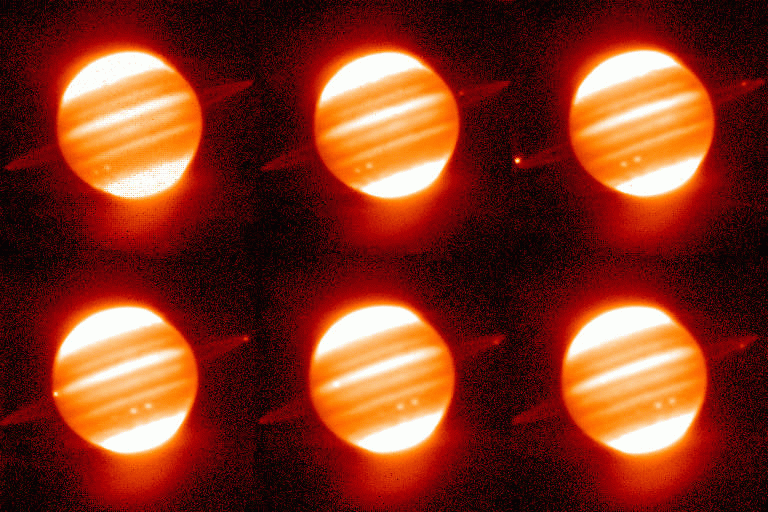 Explanation: Jupiter has rings, too. Unlike Saturn's bright rings which are composed of chunks of ice, Jupiter's rings are darker and appear to consist of fine particles of rock. The six pictures above were taken in infrared light from the Infrared Telescope Facility in Hawaii in 1994, and cover a time span of two hours. Quite visible are Jupiter's rings, bands and spots in the outer atmosphere. Also visible in the photos, however, are two small Jovian moons. Metis, only 40 kilometers across, appears in the second picture as a dim spot on the rings to the right of Jupiter. Amalthea, much larger and brighter, appears in the third frame on the far left, and can be seen to pass across the face of Jupiter in frames four and five. The origin of Jupiter's rings remains unknown, although hypothesized to be created by material scattered from meteorite impacts onto Jupiter's moons.